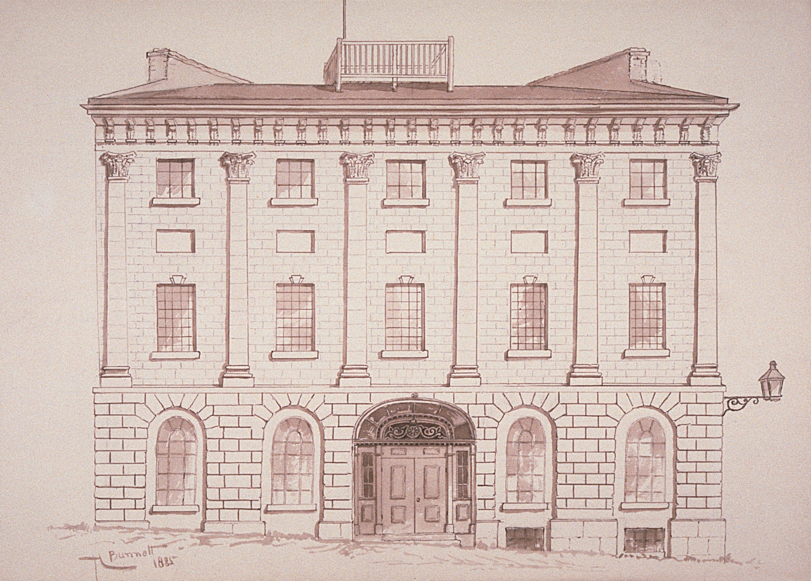 David Ross' House (before 1812) West End, Champ de Mars, Montreal